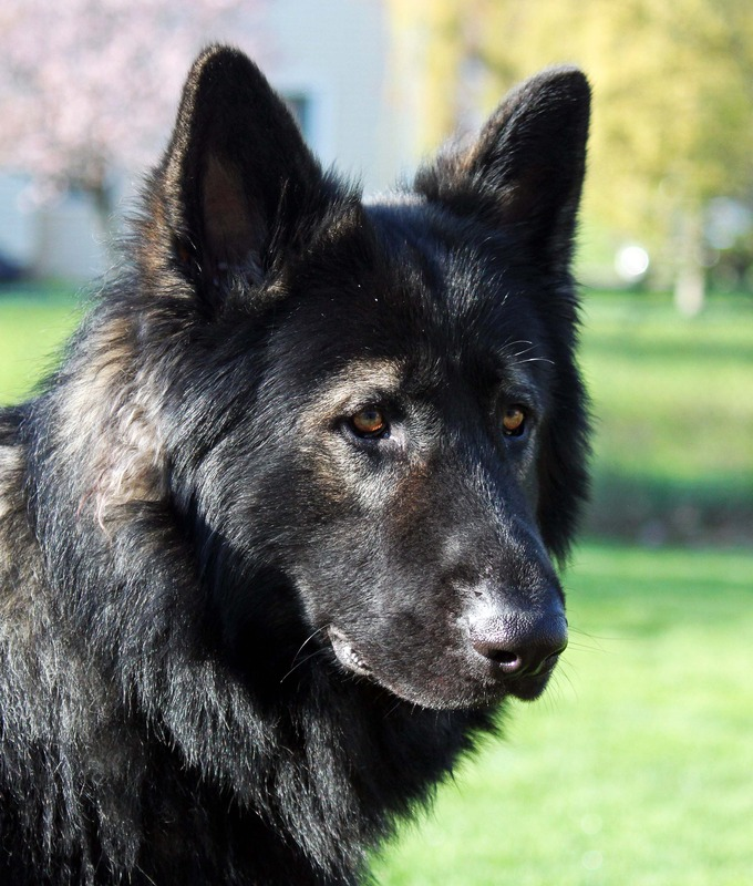 King Shepherd Diablo, aka Boo. He is a mobility dog for his owner.